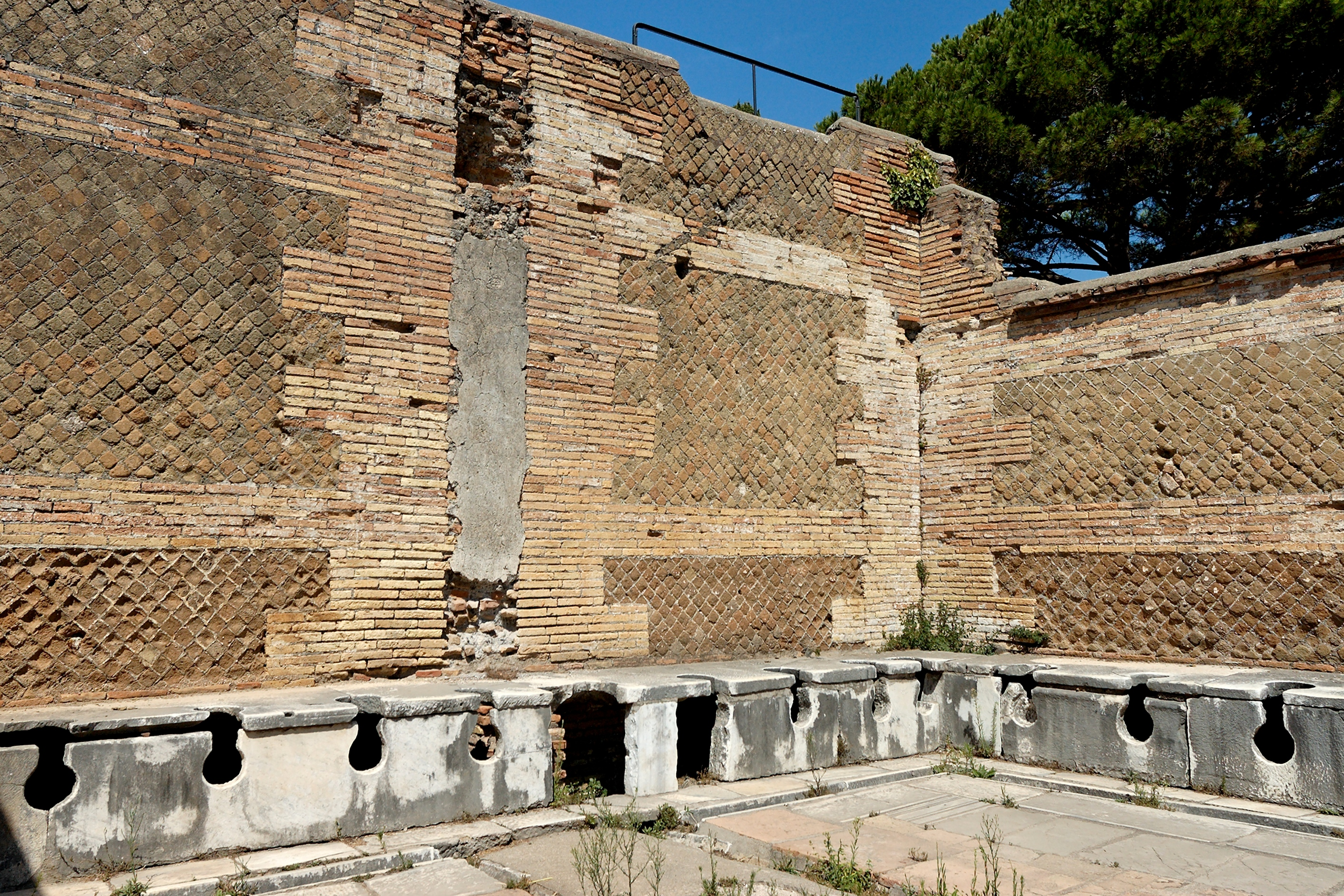 Ancient Roman latrinae. Caseggiato dei Triclini (House of the dining-couches) seen from the north. Ostia Antica, Latium, Italy.